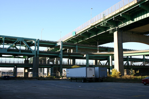 Beneath the Braga Bridge and Route 79 elevated Viaduct, Fall River, Massachusetts